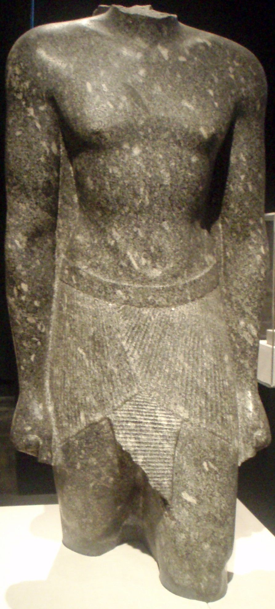 Granodiorite fragmentary statue torsi of the pharaoh Achoris, from the 29th dynasty, circa 393-381 B.C. Now residing in the Museum of Fine Arts, Boston.